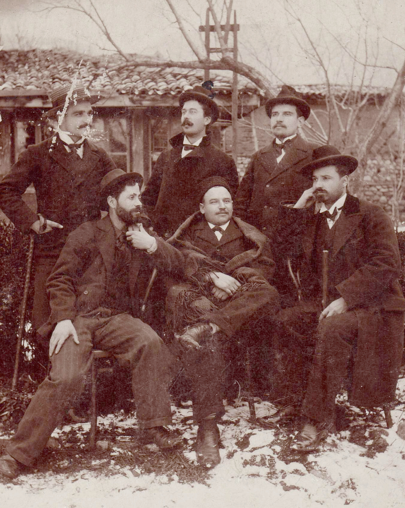 Dimo Hadzhidimov, Sotir Velichkov, Alexandar Mladzhov, Georgi Pancharevski, Ivan Kepov, Slave Sarbov